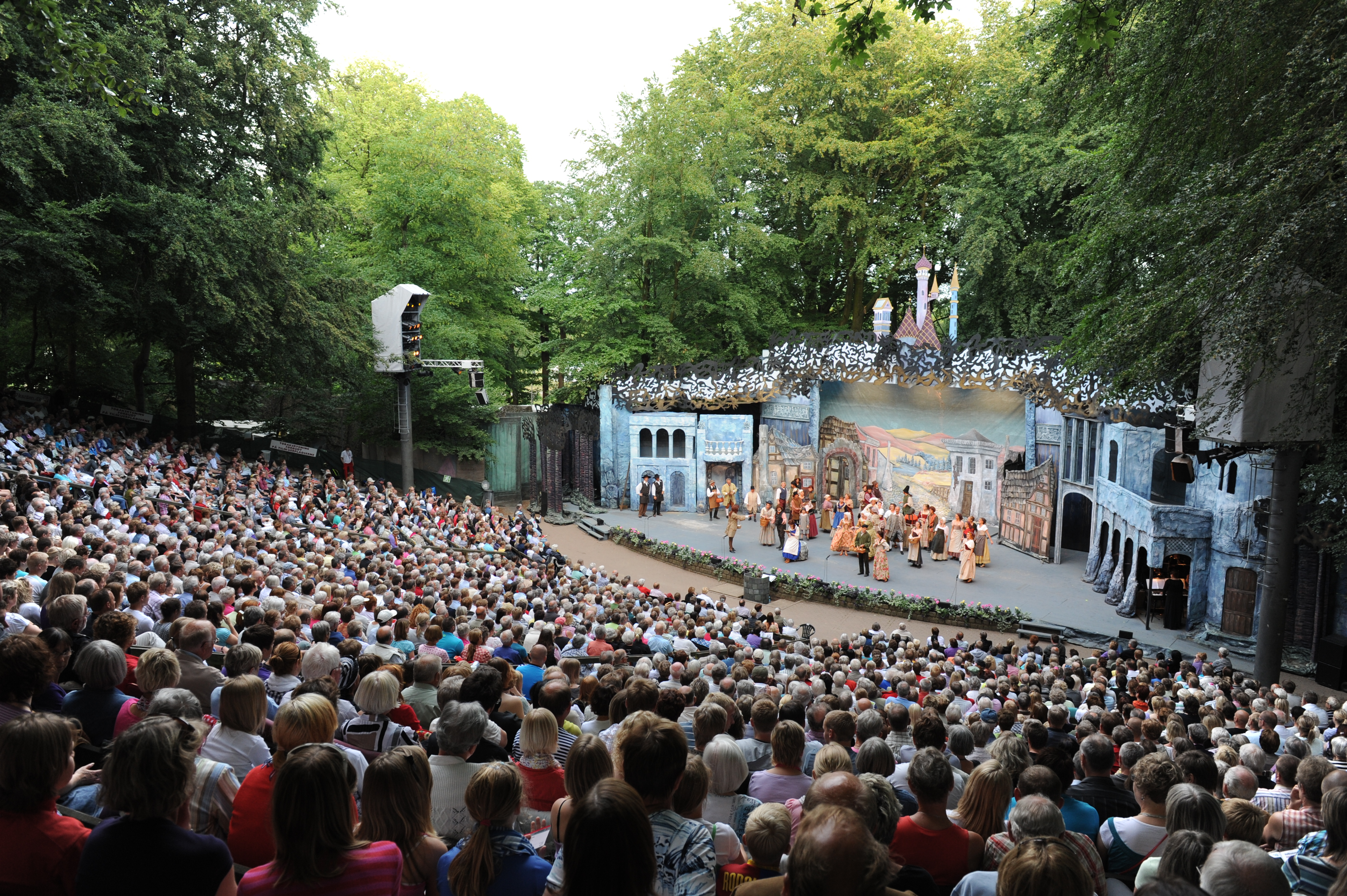 A play being performed at Varde Sommerspil in the Arnbjergparken